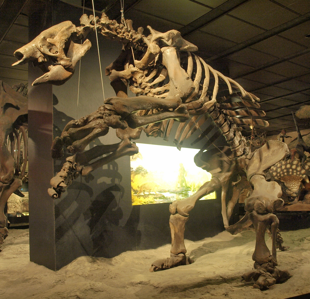 Giant ground sloth Eremotherium laurillardi (formerly mirabile) (Pleistocene, Daytona Beach, Florida) HMNS R16 Giant ground sloths, relatives of the living South American tree sloths, lived across much of North America. The giant sloths disappeared along with the mammoths, mastodons, and many other large animals at the end of the Pleistocene Epoch. One theory for this mass extinction blames a changing climate, specifically a shift to a warmer average temperature but with colder winters and warmer summers, which may have taken a toll on newly born animals. Eremotherium was probably a browser and grazer, perhaps using its claws to dig up roots and tubers during dry spells. Wikipedia Loves Art at the Houston Museum of Natural Science This photo of item # [1] at the Houston Museum of Natural Science was contributed under the team name "Kamraman" as part of the Wikipedia Loves Art project in February 2009. Houston Museum of Natural Science The original photograph on Flickr was taken by donvega—please add a comment to the original Flickr page whenever a use has been made on Wikipedia or another project. Project galleries on Flickr: this institution, this team